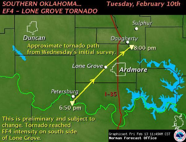 Preliminary track of the EF4 Lone Grove tornado